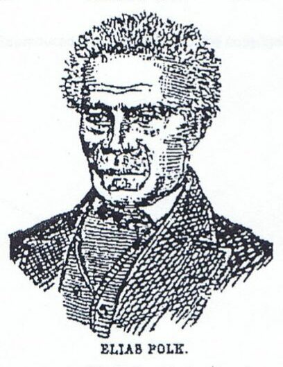 Elias Polk as illustrated in the Daily American newspaper, published in Nashville, Tennessee, on December 31, 1886.